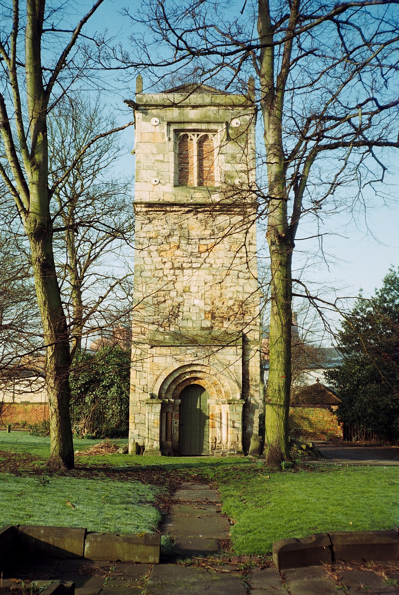 Tower of the former parish church of St Lawrence, Lawrence Street, York